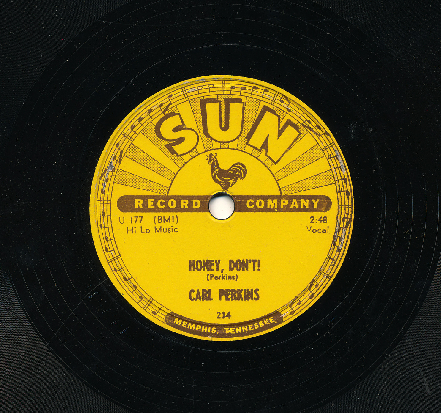 78 rpm - Carl Perkins, Honey Don't, Sun Record Company, Memphis, Tennessee.